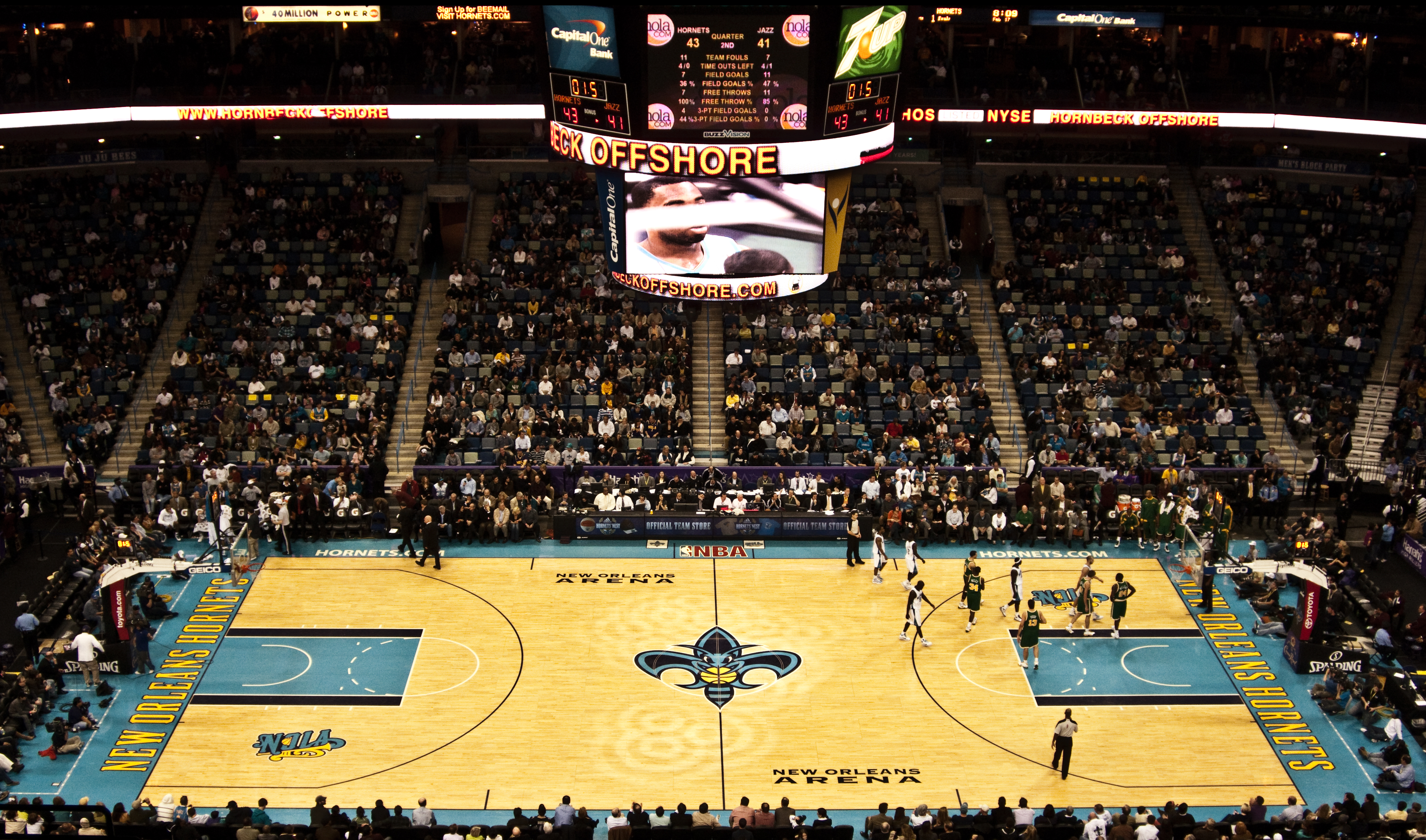 Basketball in the New Orleans Arena. My first NBA match ever. Something to recommend. Go Peja!